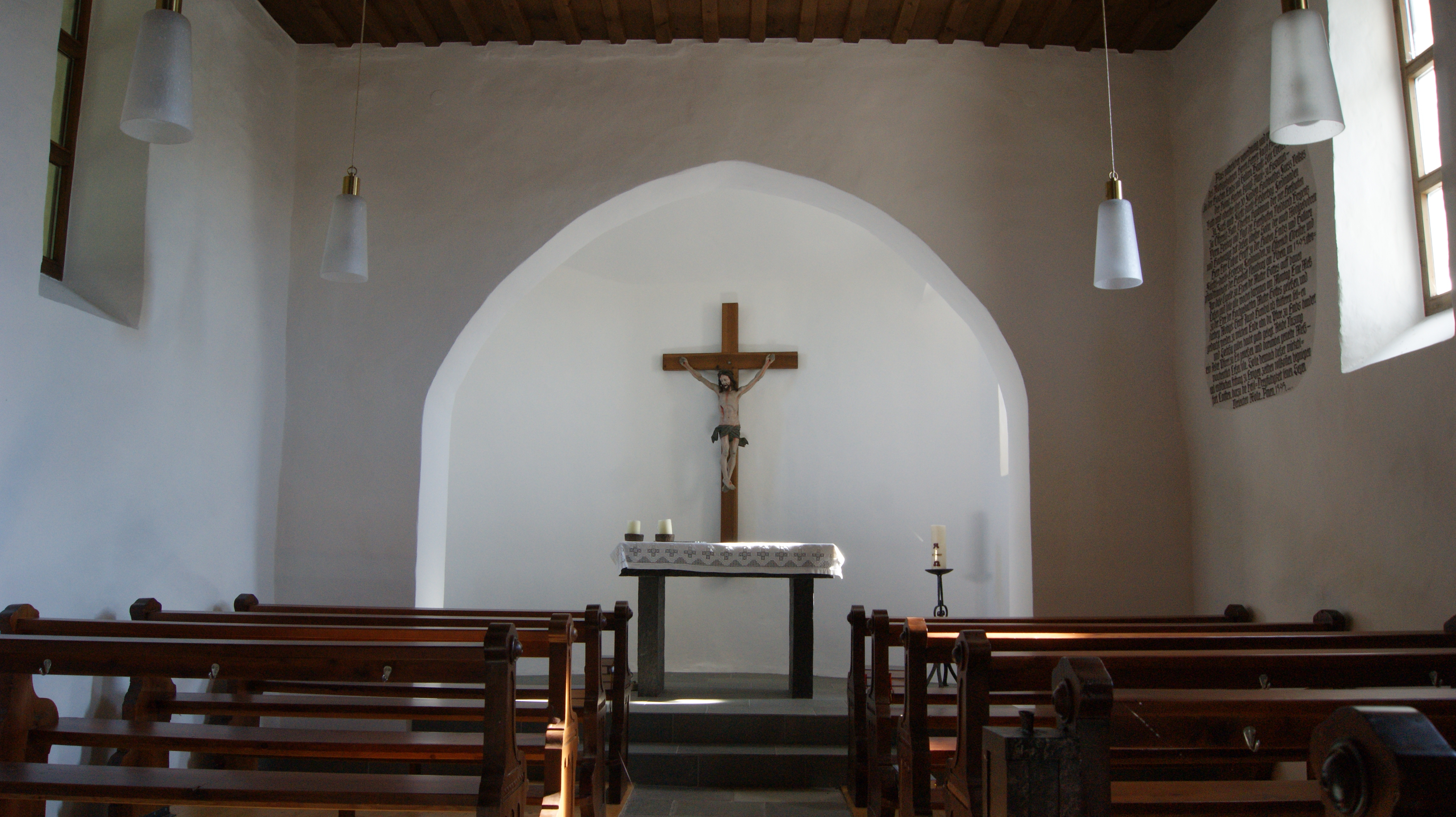 Trinity Chapel (Schwefel-Chapel) in the urban district "Schwefel" in Hohenems, Vorarlberg, Austria. Internal space, view to the altar.